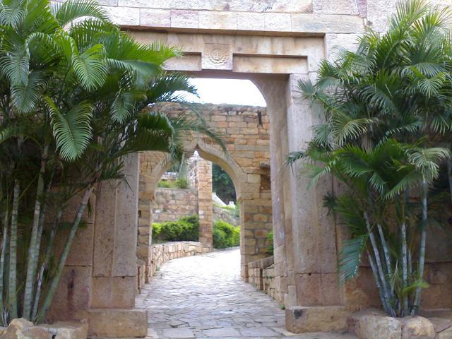 Saundatti Fort Manjuanth Doddamani, Gajendragad / Hubli, Karnataka(North), India